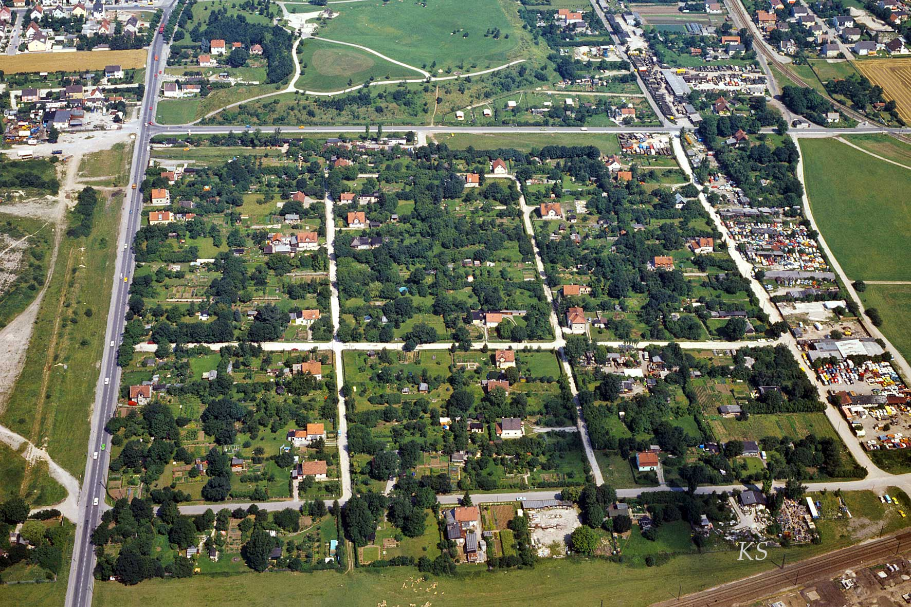 the eggarten-siedlung in munich-lerchenau, view to nord.